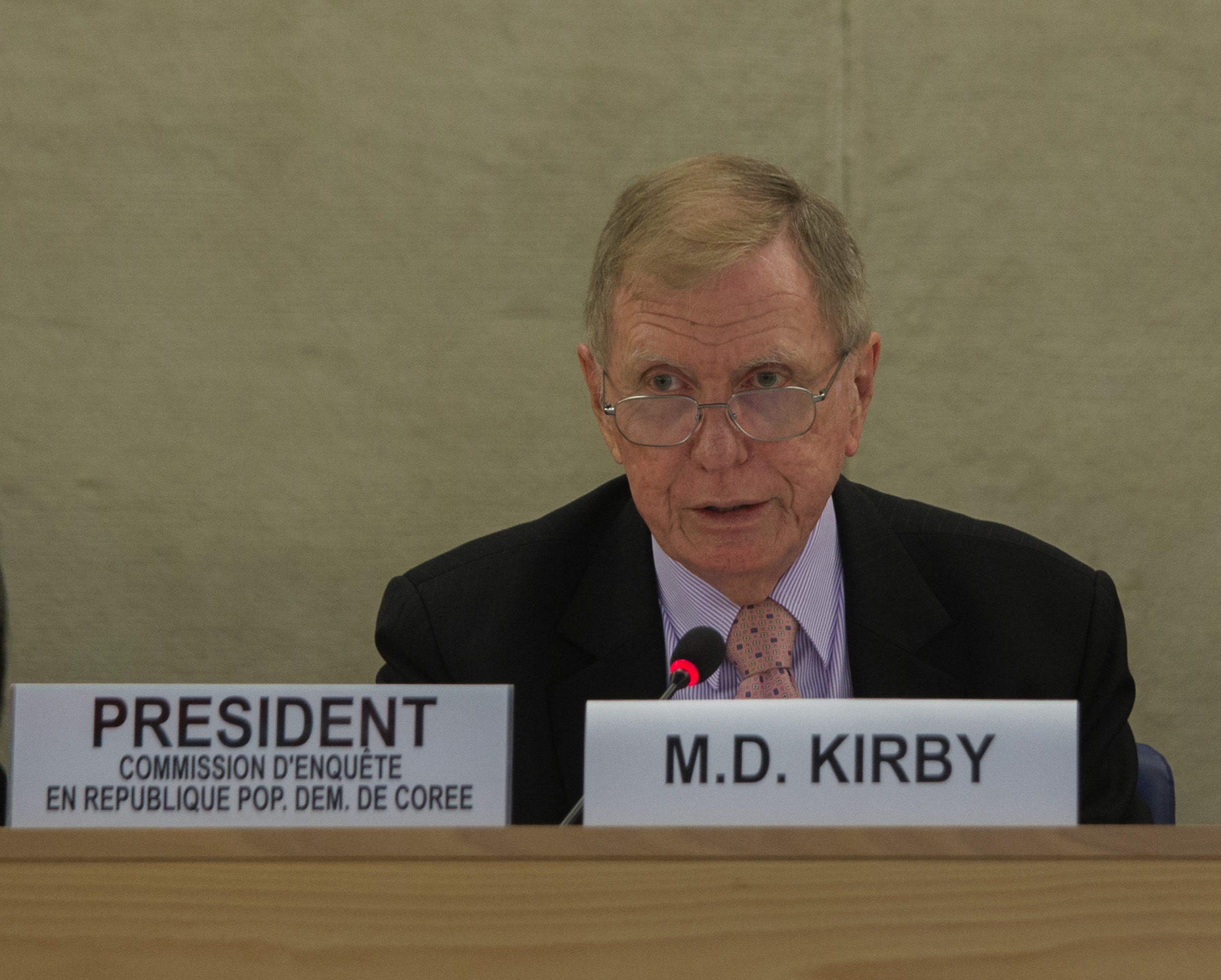 Michael Kirby, Chairman of the Commission of Inquiry on the DPRK. The United Nations Commission of Inquiry on North Korea formally presented its report to the Human Rights Council March 17, 2014. U.S. Mission Geneva/ Eric Bridiers